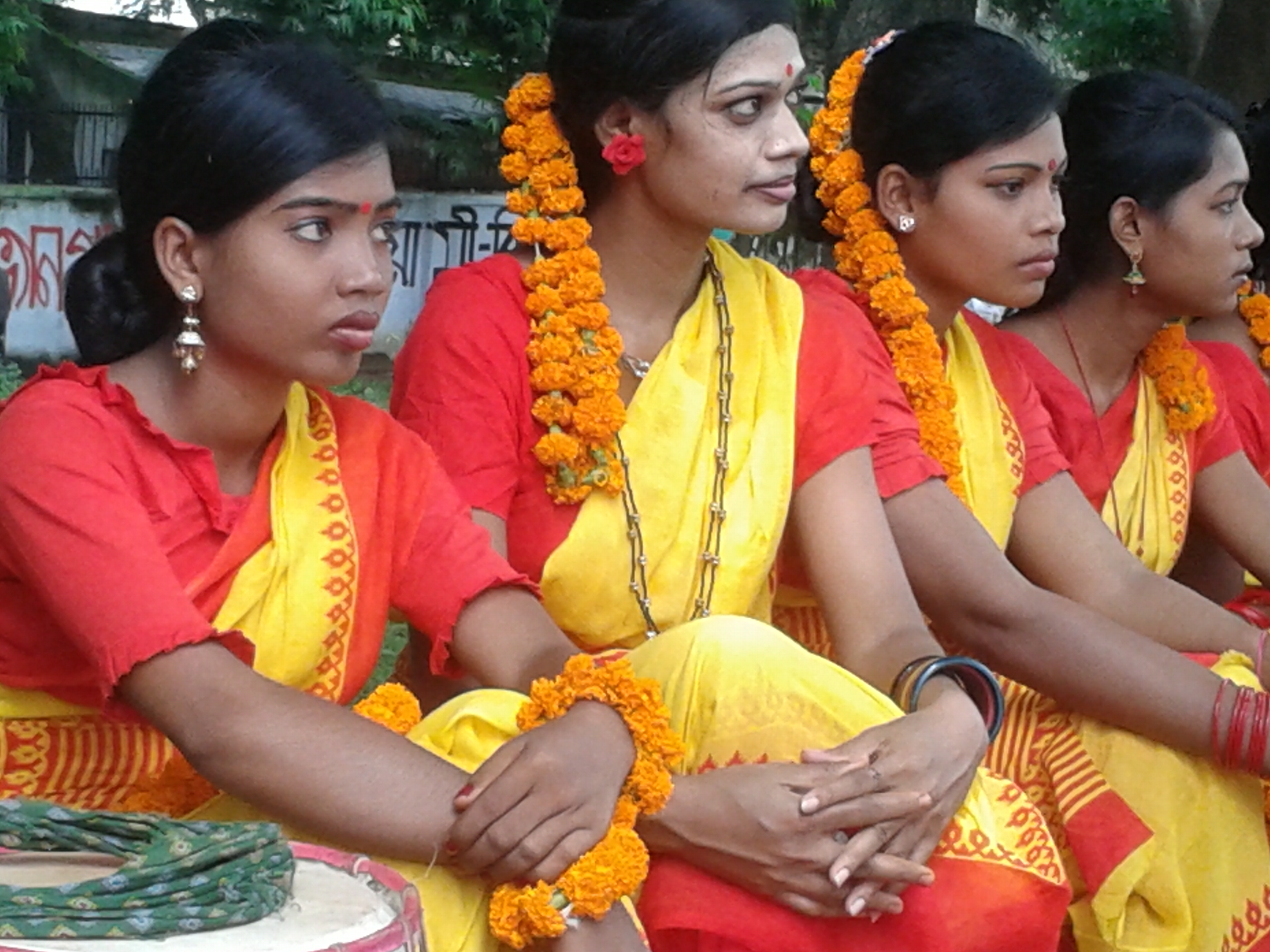 Onraw Dancer(s), Indigenous People's Day, 2014, Dhaka, Bangladesh